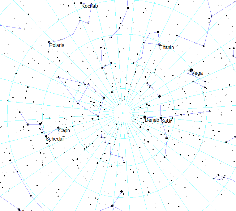 Mars (planet) celestial north pole Full Sky logo